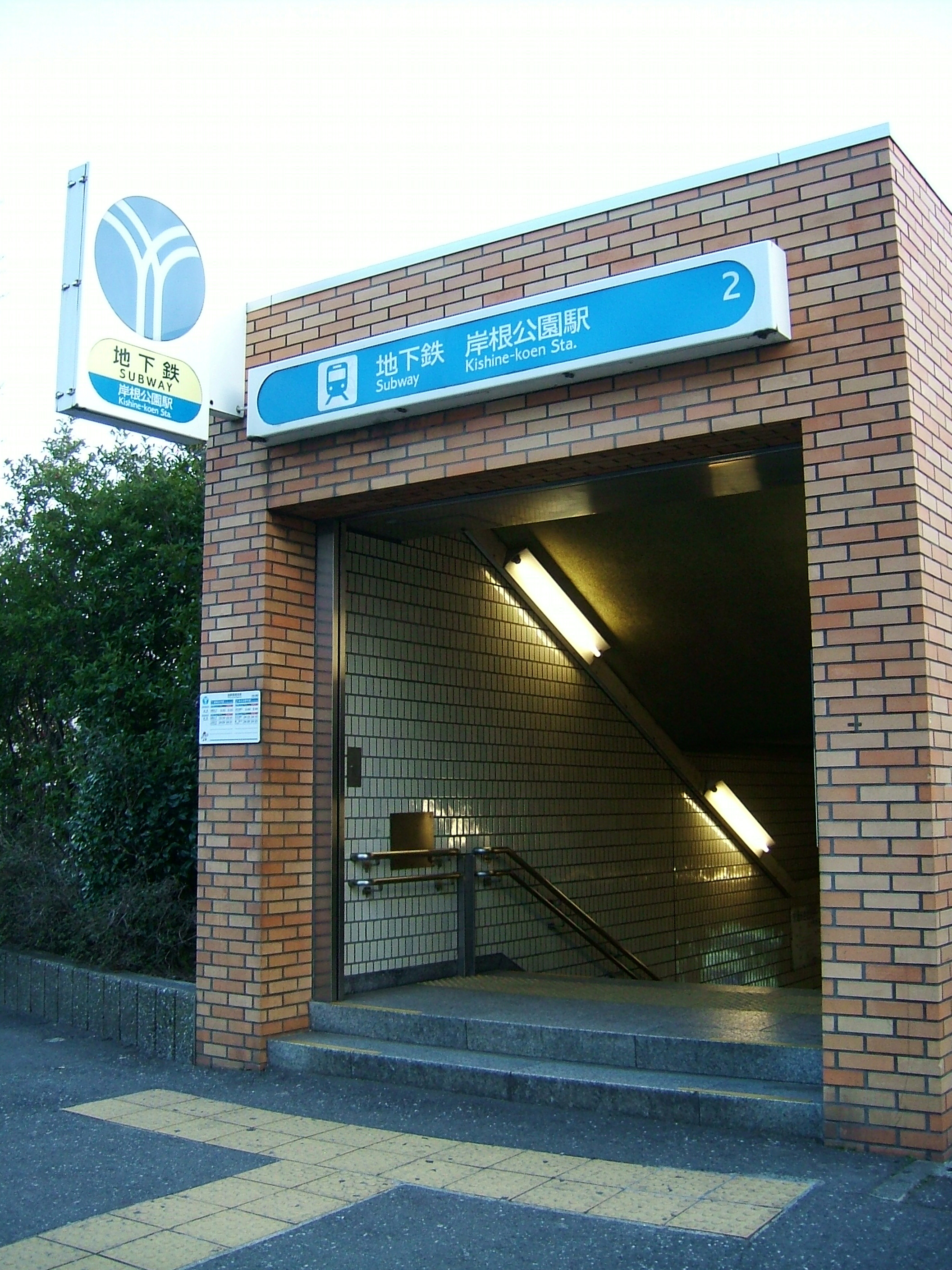 Kishine-kōen Station entrance no.2 (Yokohama Municipal Subway Blue Line)